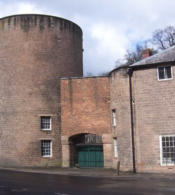 The gateway to Arkwright's mill at Cromford, Derbyshire